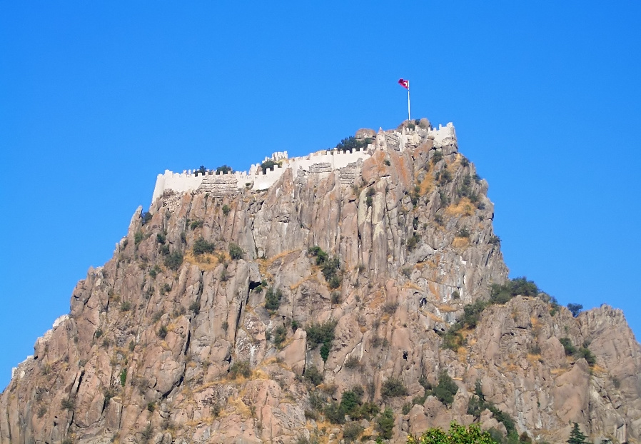 Afyonkarahisar Castle